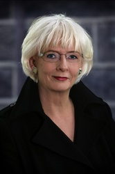 Jóhanna Sigurðardóttir, Iceland's Social Minister 2007-2009